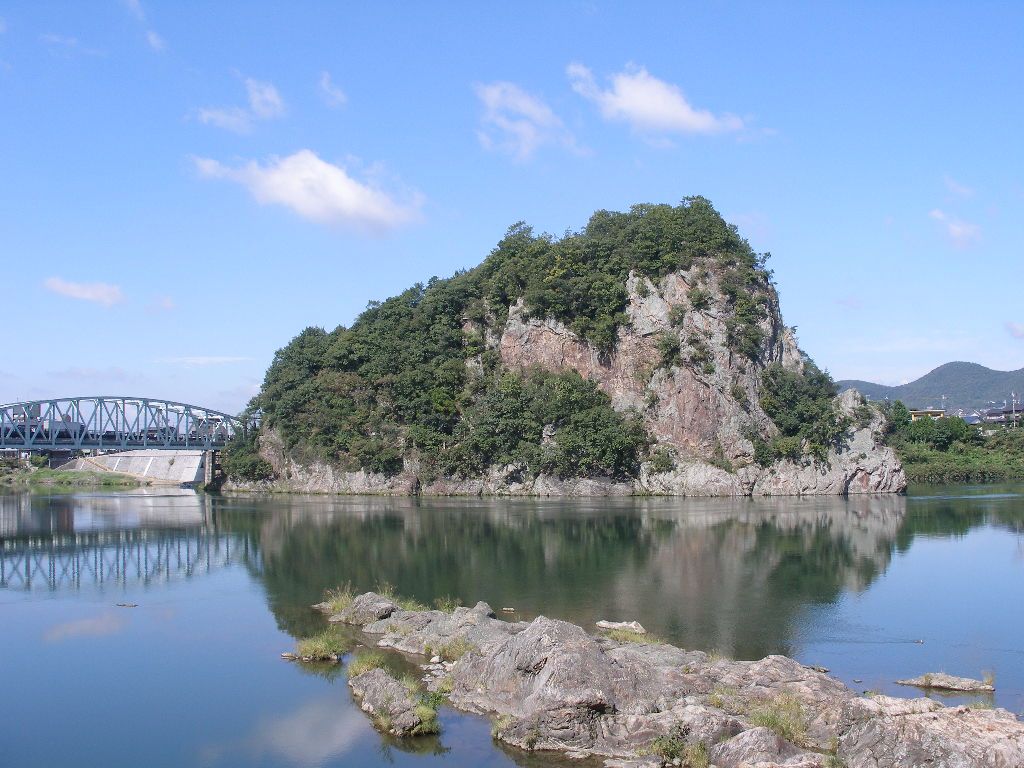 Trace of Unuma Castle（鵜沼城）